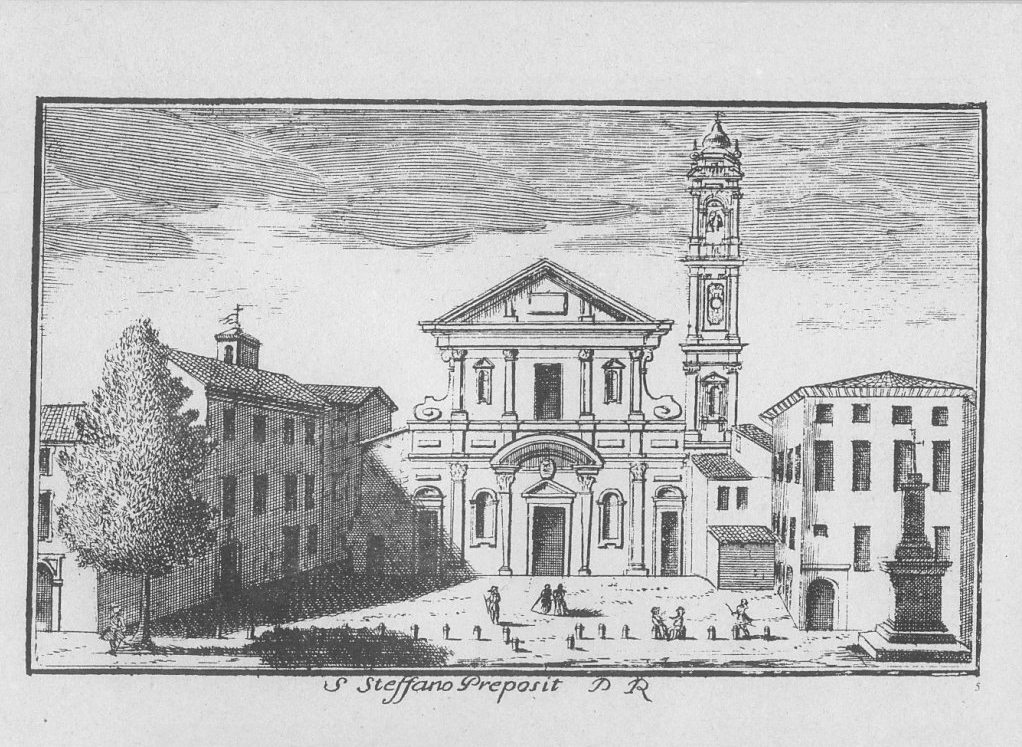 Marc'Antonio Dal Re (1697-1766), Santo Stefano church in Milan. This engraving is # 5 from a set of 88 Vedute di Milano ("Views of Milan") published by Del Re around 1745.